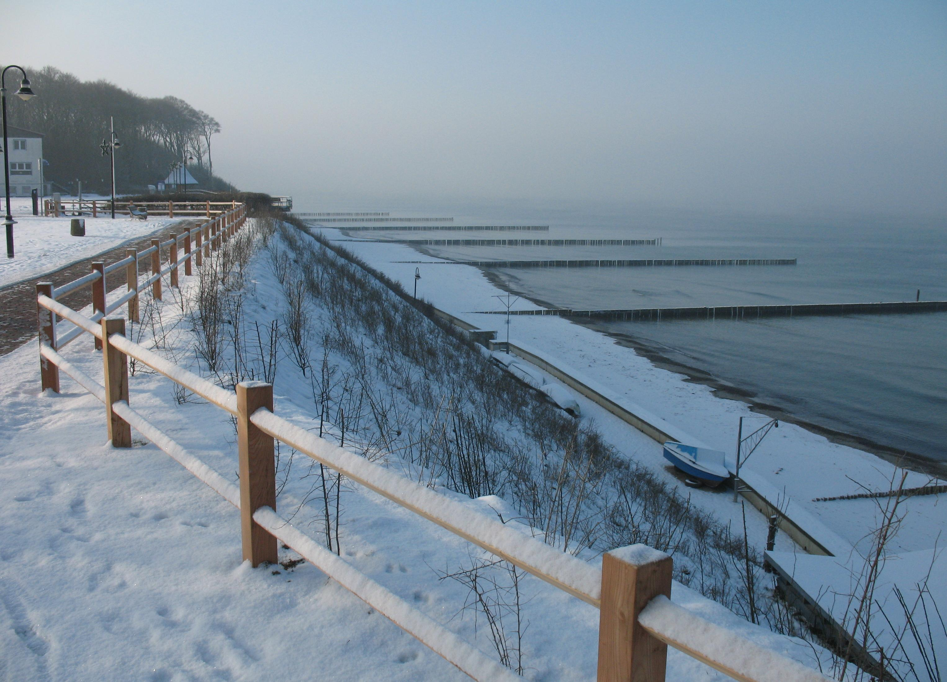 Cliffed coast and baltic sea in Nienhagen in Mecklenburg-Western Pomerania, Germany